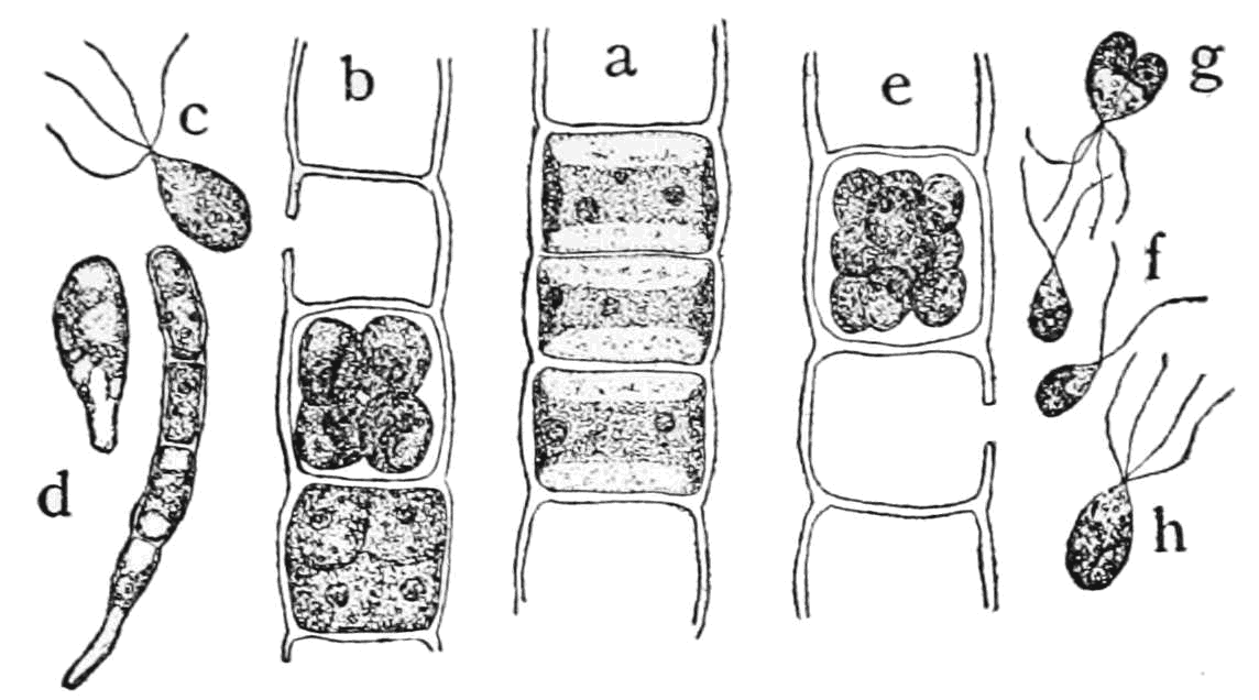 Ulothrix